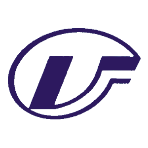 Yerevan Metro logo